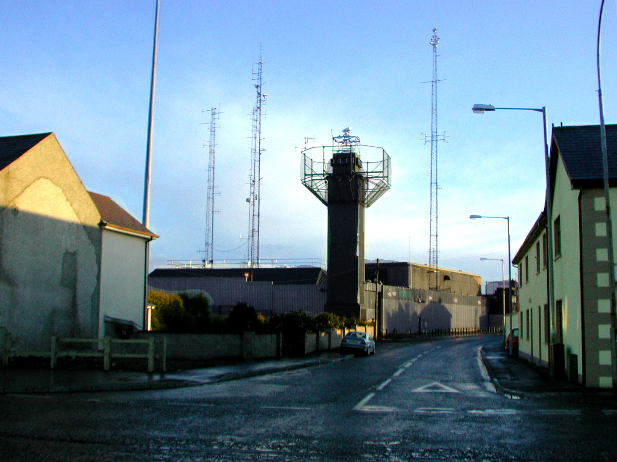 Police station of Royal Ulster Constabulary (RUC) in Crossmaglen, County Armagh, Northern Ireland.